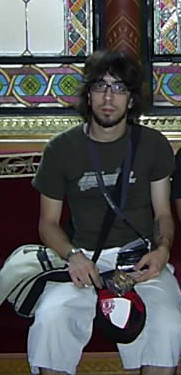 Yagmur Sarigül, of rock band maNga in the Parliament of Hungary, August 2006.